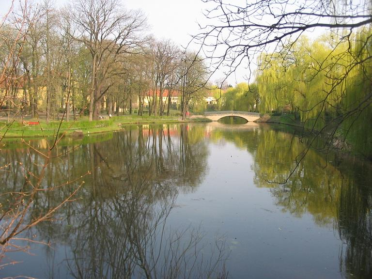 Lindenhofteich (lake) in the listed urban area Lindenhof in Berlin-Schöneberg nearby Alboinplatz (place), built between 1918 and 1921 by Heinrich Lassen and Martin Wagner . The Park is also listed and was projected by Leberecht Migge.